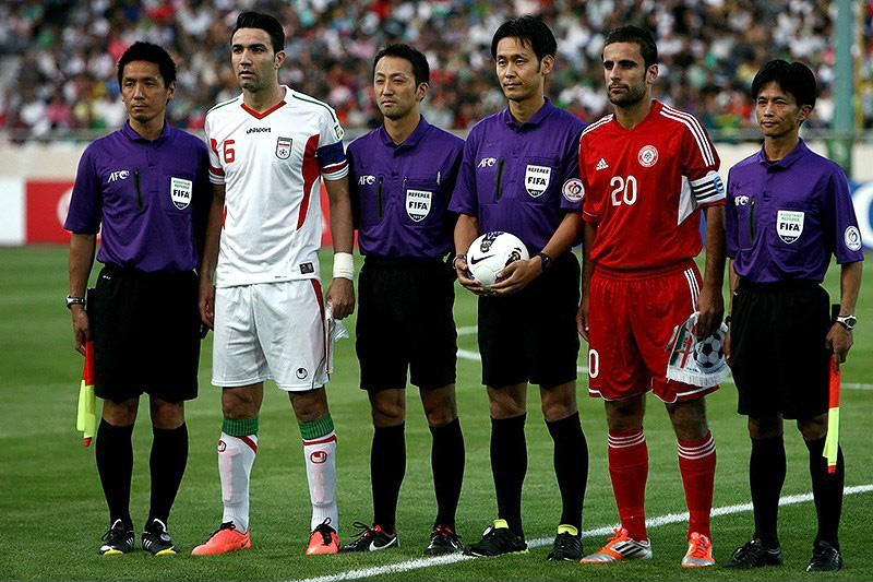 Iran v Lebanon at the 2014 FIFA World Cup qualifiers.